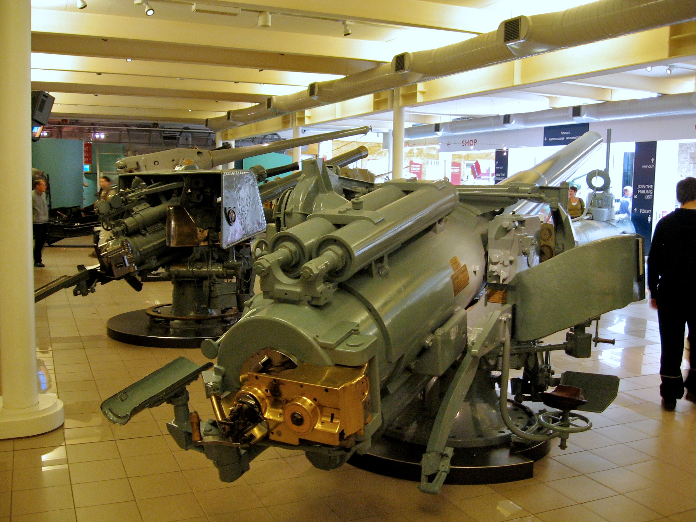 Naval guns at the Imperial War Museum, London. Right : The BL 5.5 inch 50 calibre Mk I naval gun that was served by Jack Cornwell in his Victoria Cross action on HMS Chester at the Battle of Jutland. See File:BL 5.5 inch gun IWM muzzle view.jpg for a muzzle view of the same 5.5 inch gun. Centre. The QF 4 inch 40 calibre Mark IV from HMS Lance that fired the first British shot in World War I. Far left : A German 10.5 cm SK L/45 gun from submarine U-98.